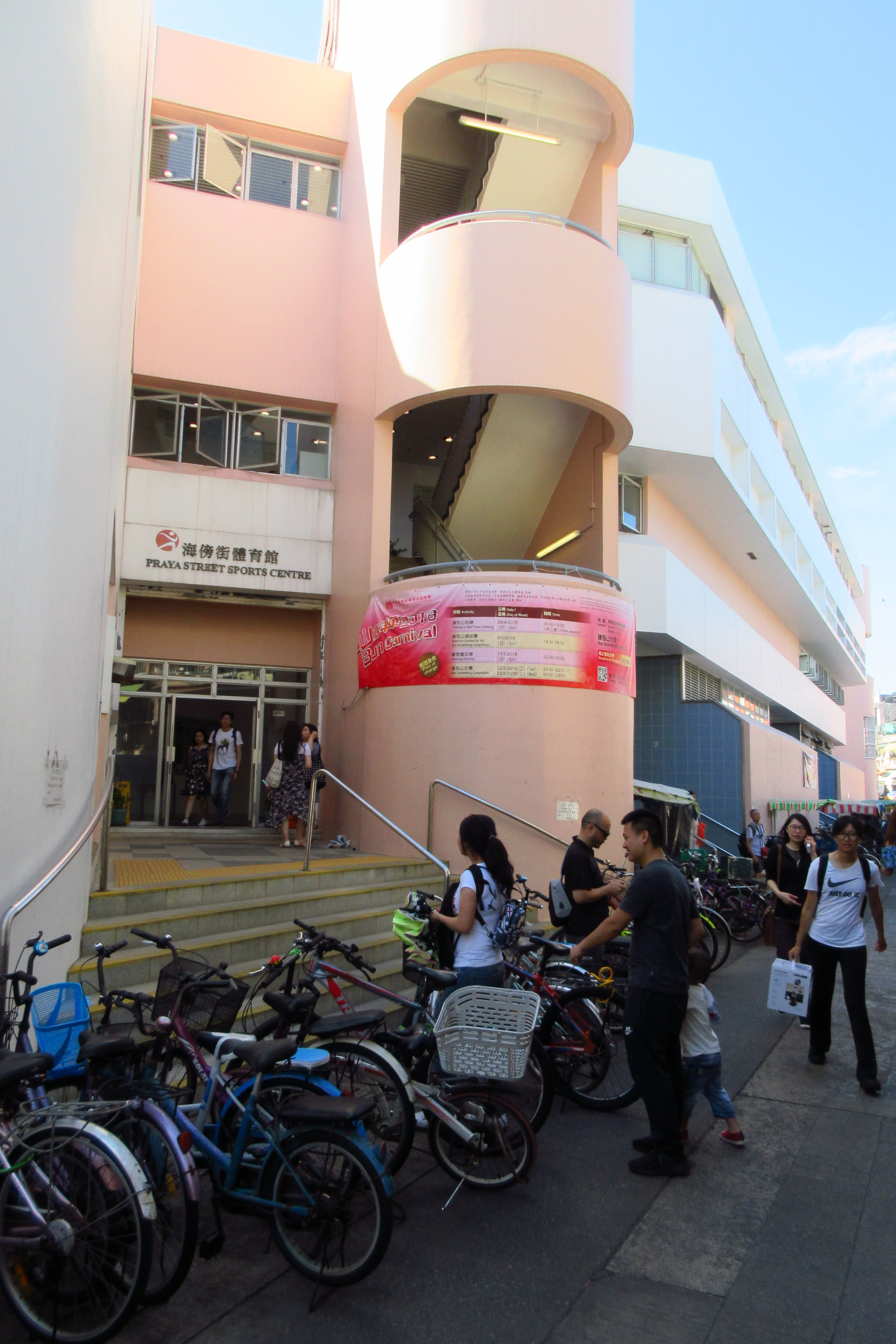 HK 長洲 Cheung Chau 大新海傍路 Tai San Praya Road in May 2018